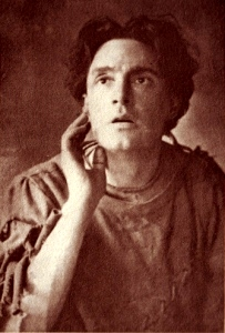 Piero Schiavazzi was born in Cagliari on March 14,1875. He studied at the Liceo Musicale "G. Rossini" of Pesaro which was then directed by Pietro Mascagni. Schiavazzi was charmed by the dynamic style of Verismo. He devoted himself to the works of the "young school" of which he soon became one of the most representative singers. His voice had a charming timbre of pure tenor color which was described as having a glossy texture and golden quality. Schiavazzi debuted on November 22,1898 at the Rome Teatro Costanzi performing the role of the Ragpicker in the the world premier of Mascagni's Iris. From then on Schiavazzi sang at most of the major houses including Teatro San Carlo in Naples, The Metropolitan Opera House, Teatro Regio in Parma, Lisboa, Teatro Costanzi in Rome, Teatro Donizetti in Bergamo, Petruzzelli in Bari, La Scala in Milan, Bucarest, South America, Teatro Massimo in Palermo, Barcelona, Teatro Communale in Bologna, Carlo Felice in Genoa, Covent Garden in London, Teatro Regio in Turin, Egypt, Pesaro, Teatro Sociale in Rovigo, and Teatro Garibaldi in Treviso. After 1922 he began to perform much less. Piero Schiavazzi died in Rome on March 25,1949. Enjoy listening to this rarely heard recording.